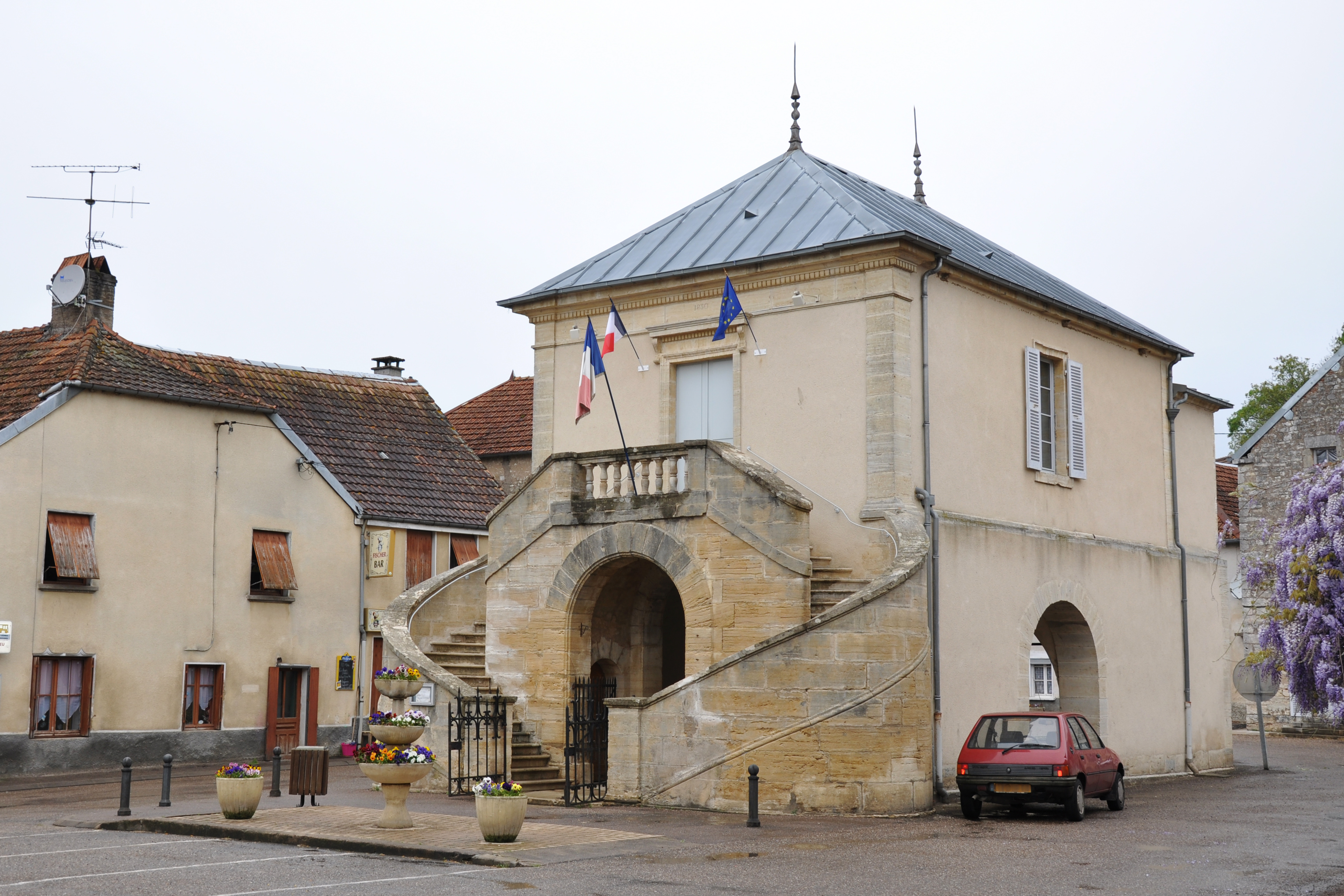 Town hall and wash house of Beaujeu-Saint-Vallier-Pierrejux-et-Quitteur, built in 1830 by Louis Moreau.